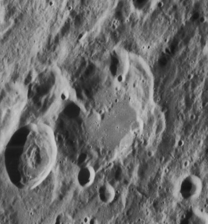 Oblique view of Zeno, on the moon.